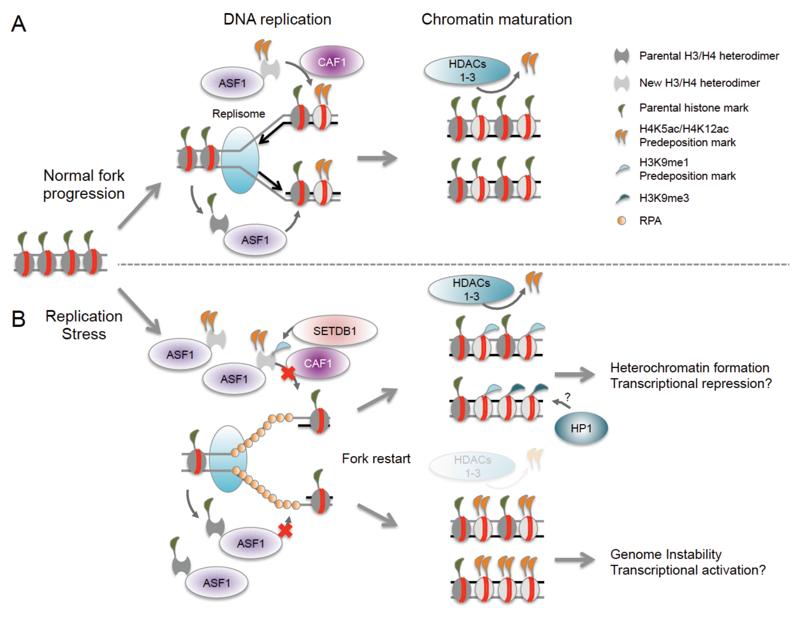 (A) Reassembly of histone H3/H4 heterodimers at replication forks is mediated by the sequential actions of the chromatin assembly factors ASF1 and CAF1. New histones carry H4K5ac/H4K12ac predisposition marks, which are required for their nuclear import. ASF1 can bind both new and evicted histones, ensuring tightly controlled histone recycling and nucleosome reassembly; (B) Replication stress interferes with the restoration of epigenetic information at stalled forks. Fork arrest results in excessive histone eviction and accumulation of ASF1 loaded with both old and new histones. Fork restart triggers rapid nucleosome assembly, which can result in unbalanced incorporation of old and new histones. Replication stress also promotes the accumulation of the H3K9me1 pre-deposition mark, which may serve as a template for H3K9me3 and HP1-mediated heterochromatin formation. Finally, impaired HDAC function may affect the removal of pre-deposition acetyl-marks, causing epigenetic changes in post-replication chromatin. Together, these defects have the potential to either promote or inhibit the expression of nearby genes.[1]